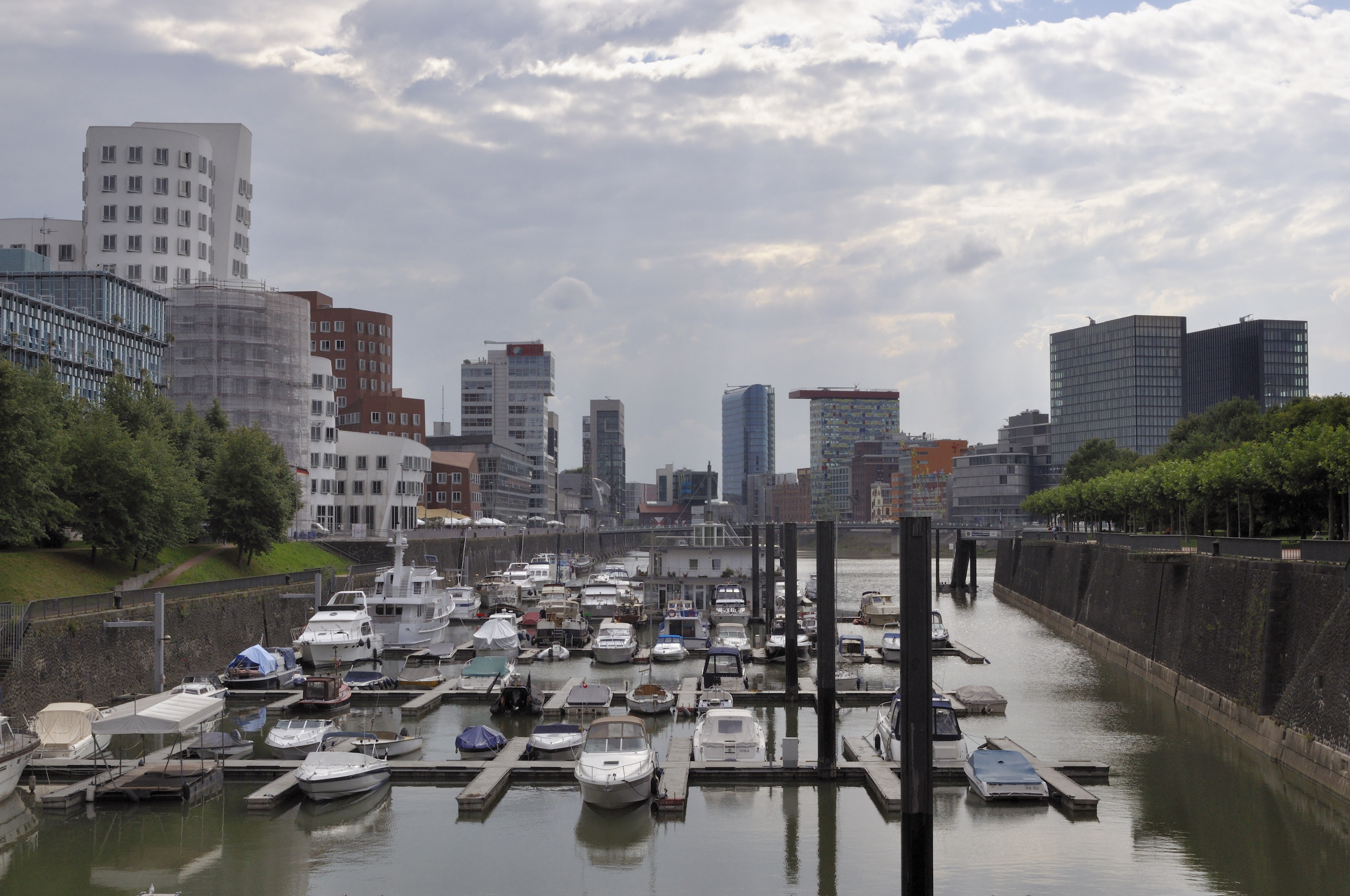 Picture taken in Düsseldorf before Duisburg summer meetup 2010.